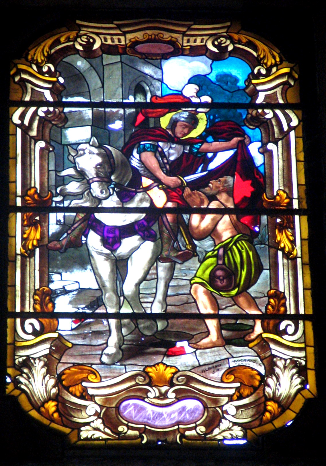 Asti, San Martin church.